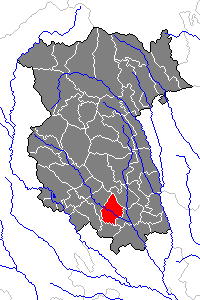 This map shows the area of the Gemeinde (municipality) Ebersdorf in the Bezirk (district) Hartberg, Styria, Austria.